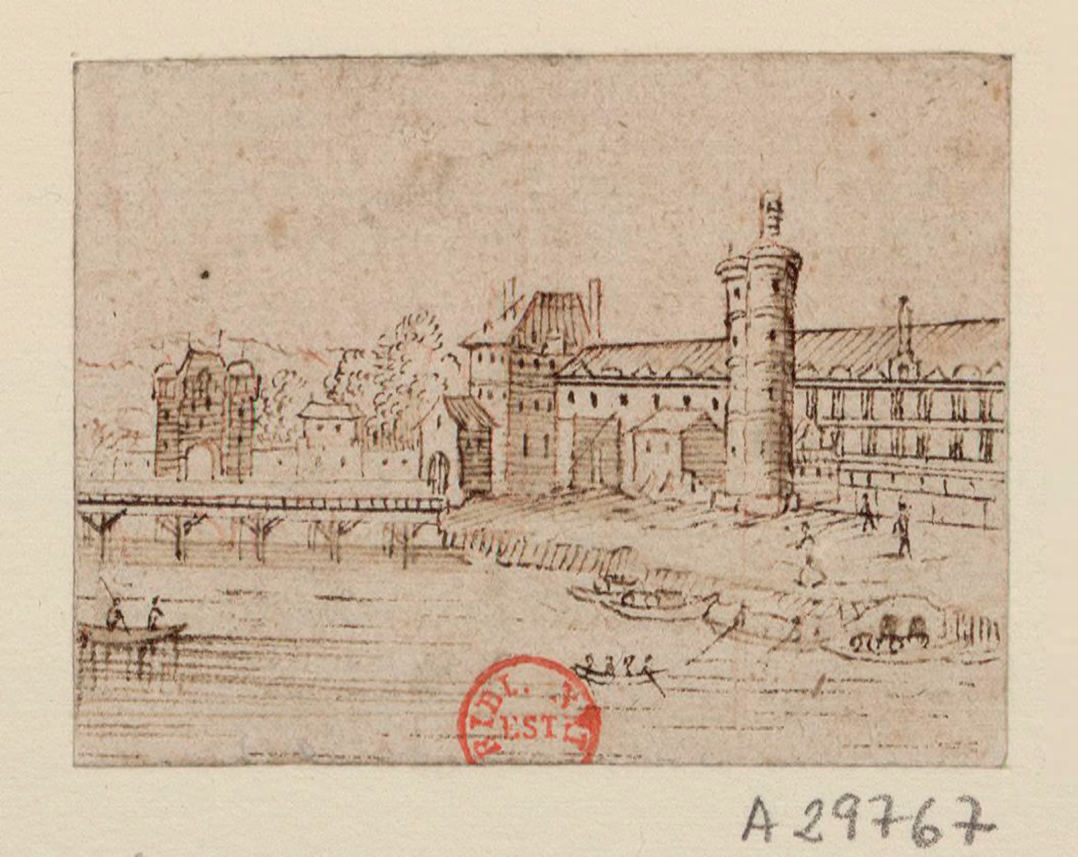 The former Pont Rouge, a wooden bridge near the Tuileries Palace in Paris, today the site of the Pont Royal